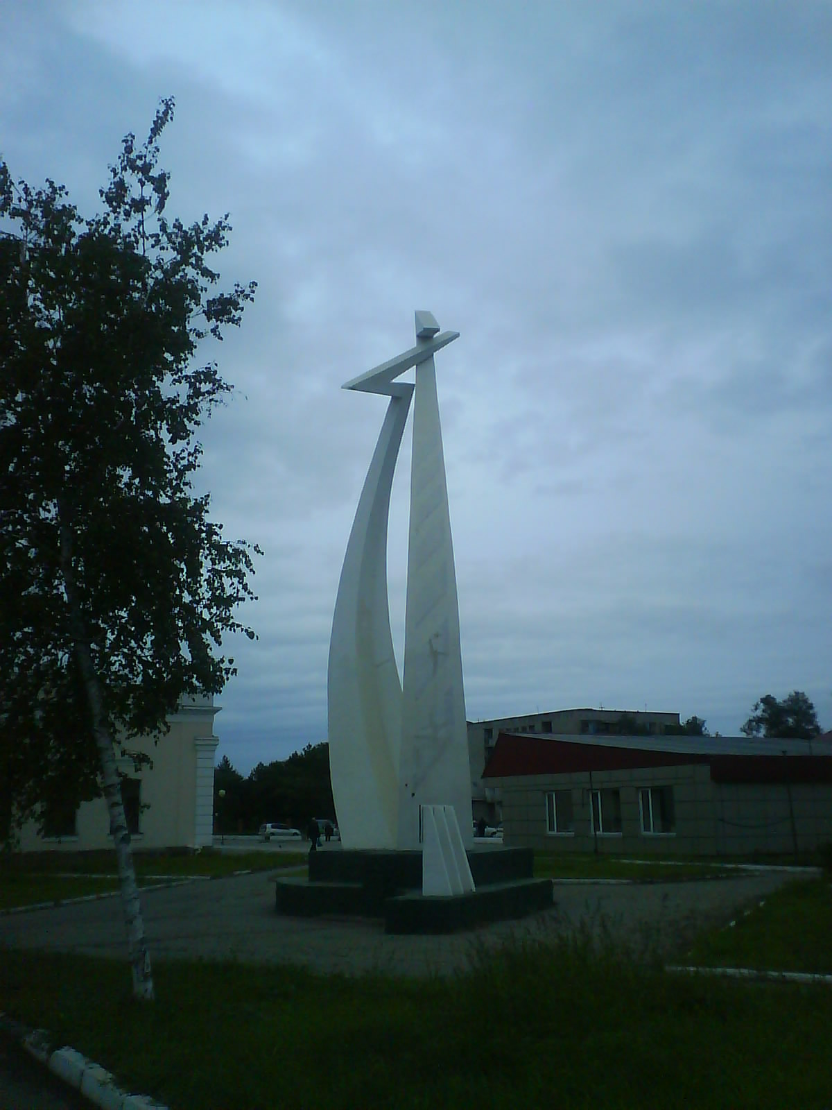 Monument of terminations to electrifications Khabarovsk-Vladivastok railway on Ruzhino station